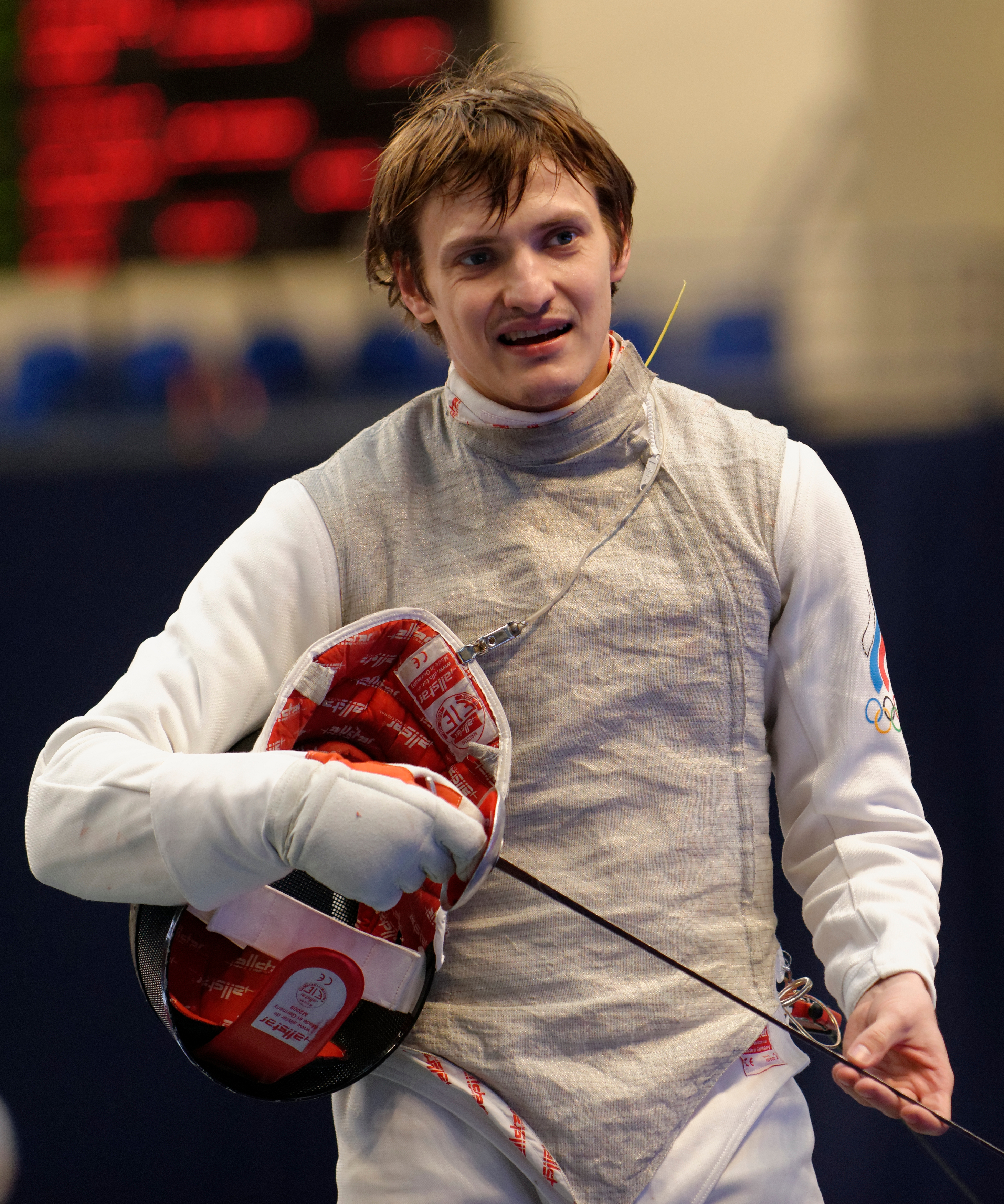 Aleksey Cheremisinov of Russia during his T16 bout against France's Vincent Simon at the Challenge International de Paris (men's foil World Cup).